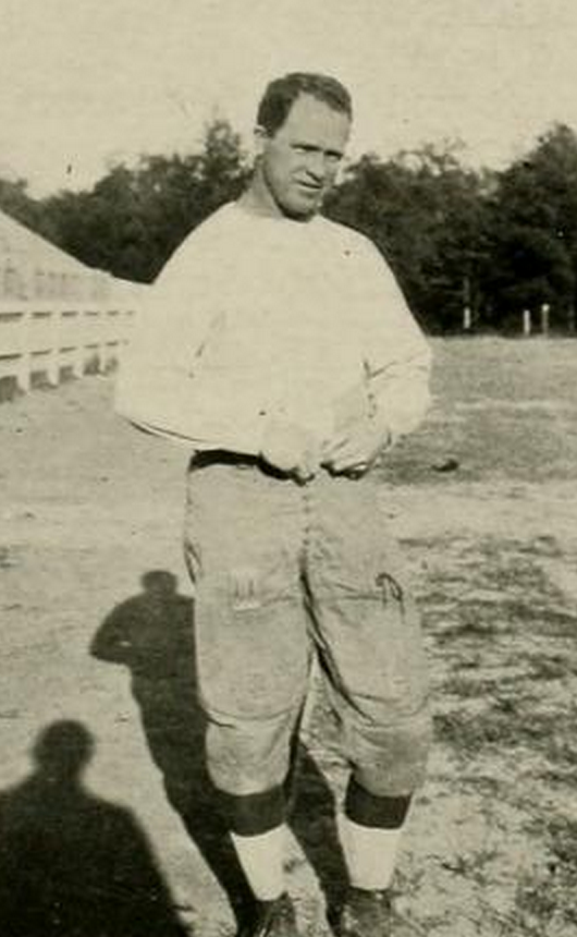 T.J. "Tommie" Campbell, UNC coach